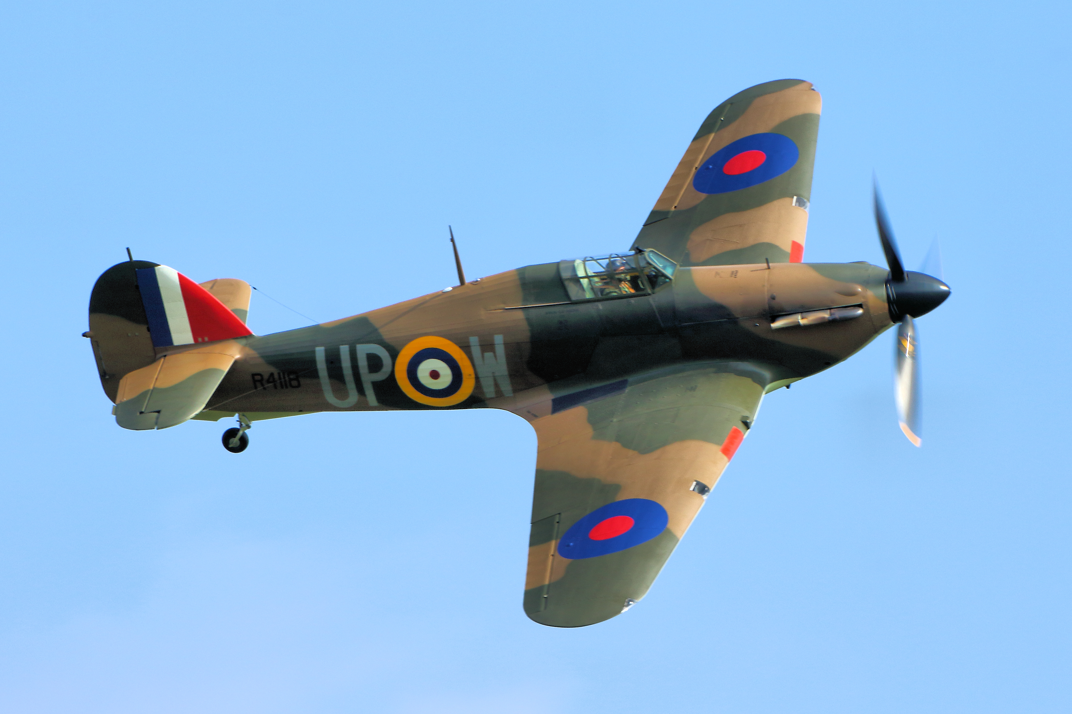 Hawker Hurricane - Shuttleworth Uncovered 2015